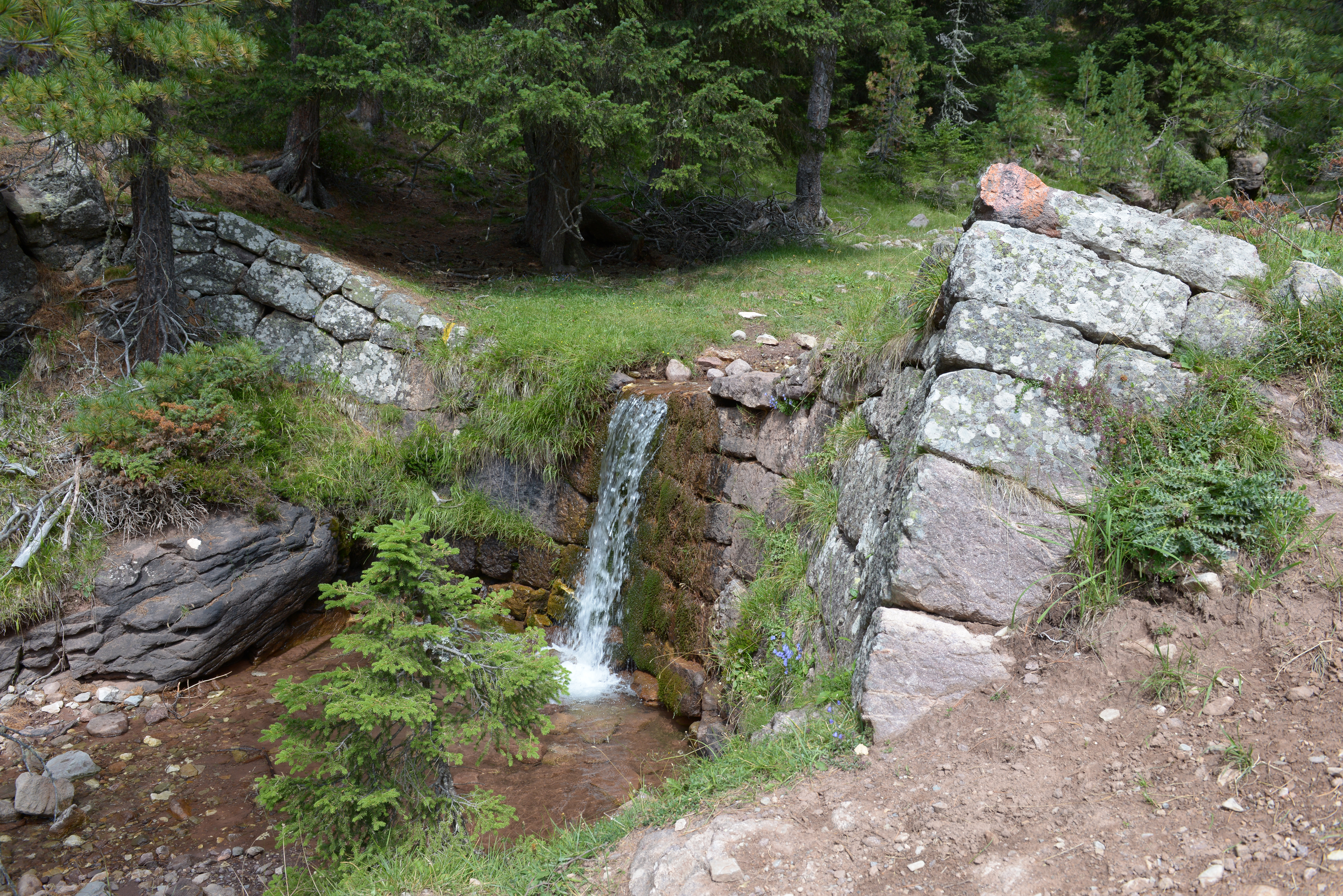 Weir n. 13 on the Grialëces creek in St. Ulrich in Gröden